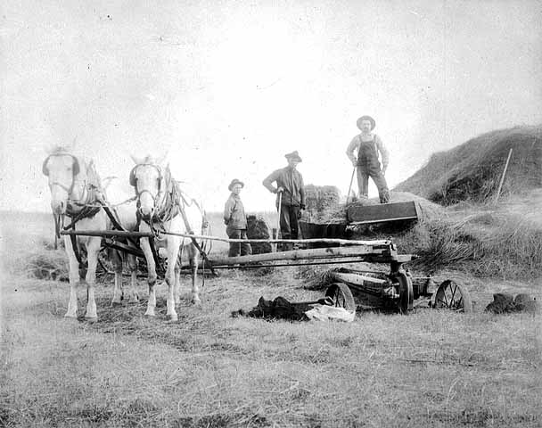 Photograph Collection ca. 1900 Location no. SA4.51 p38 Negative no. 33001